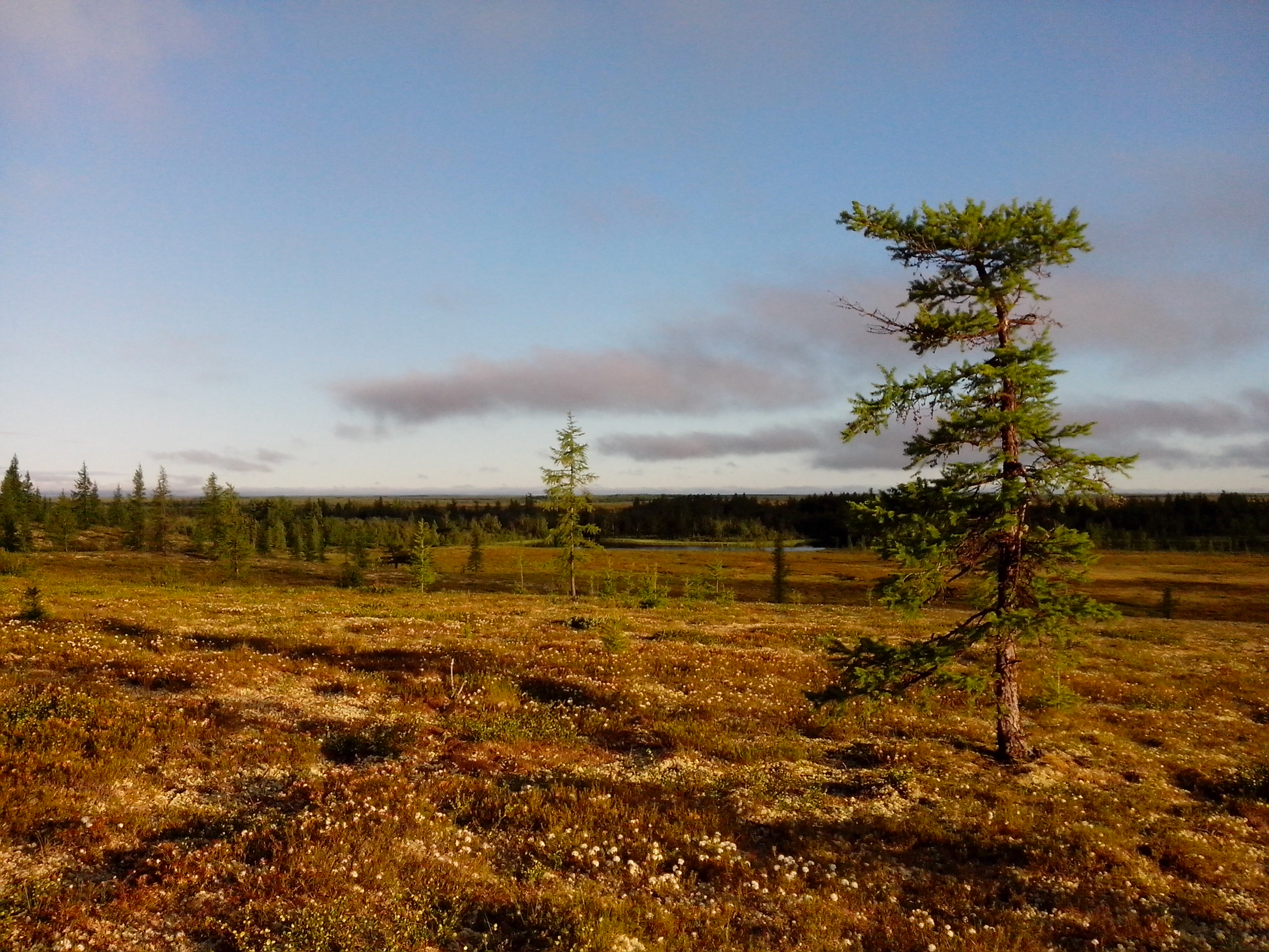 Тазовский полуостров